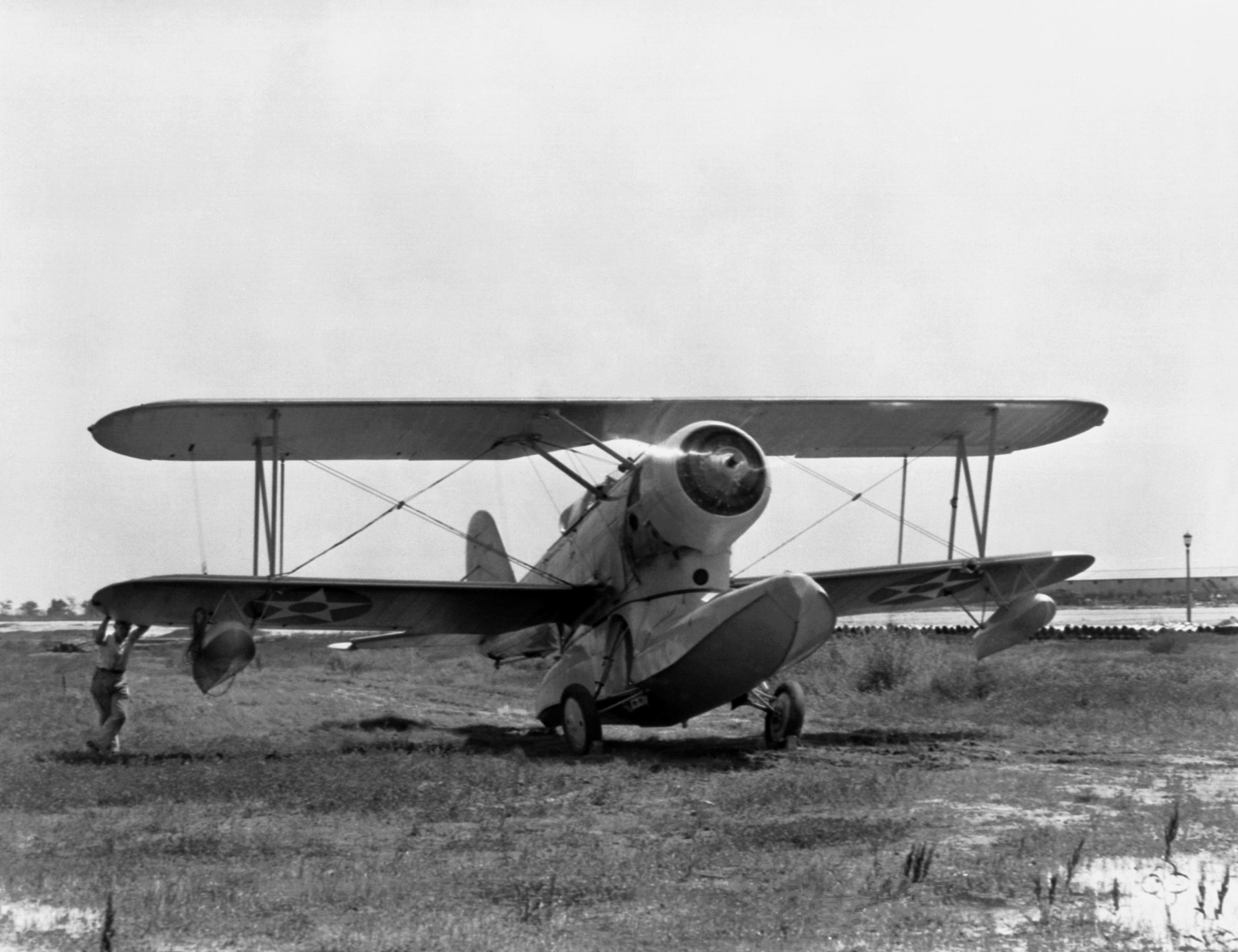 A U.S. Navy Grumman JF-1 Duck that was in service with the NACA at Langley during the summer of 1934. The JF-1 was notably different from the later J2F Duck in that the JF-1 had a shorter central float. The NACA used the JF-1 in part as a propeller testbed aircraft.